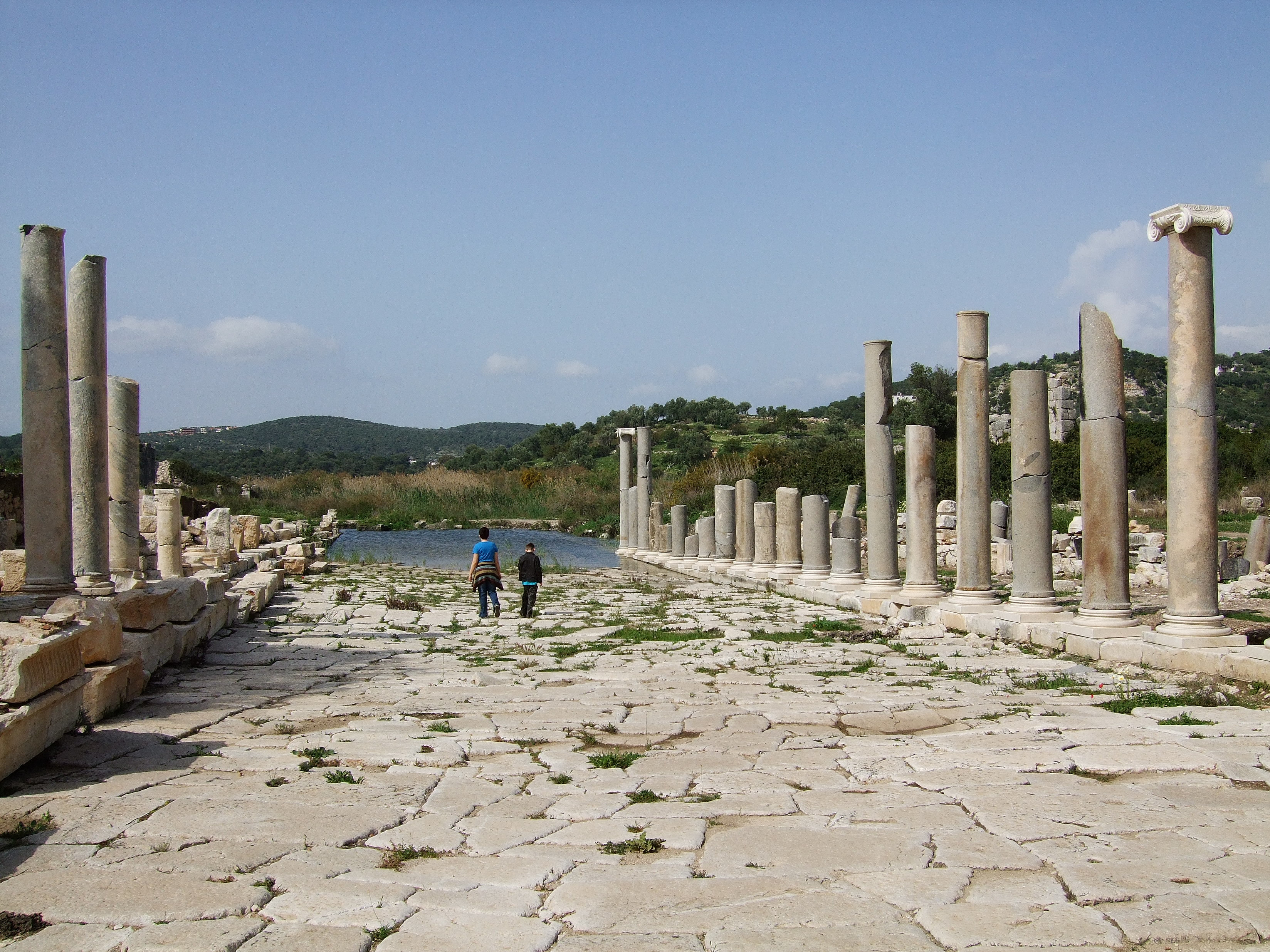 Main Street of Patara Ruins